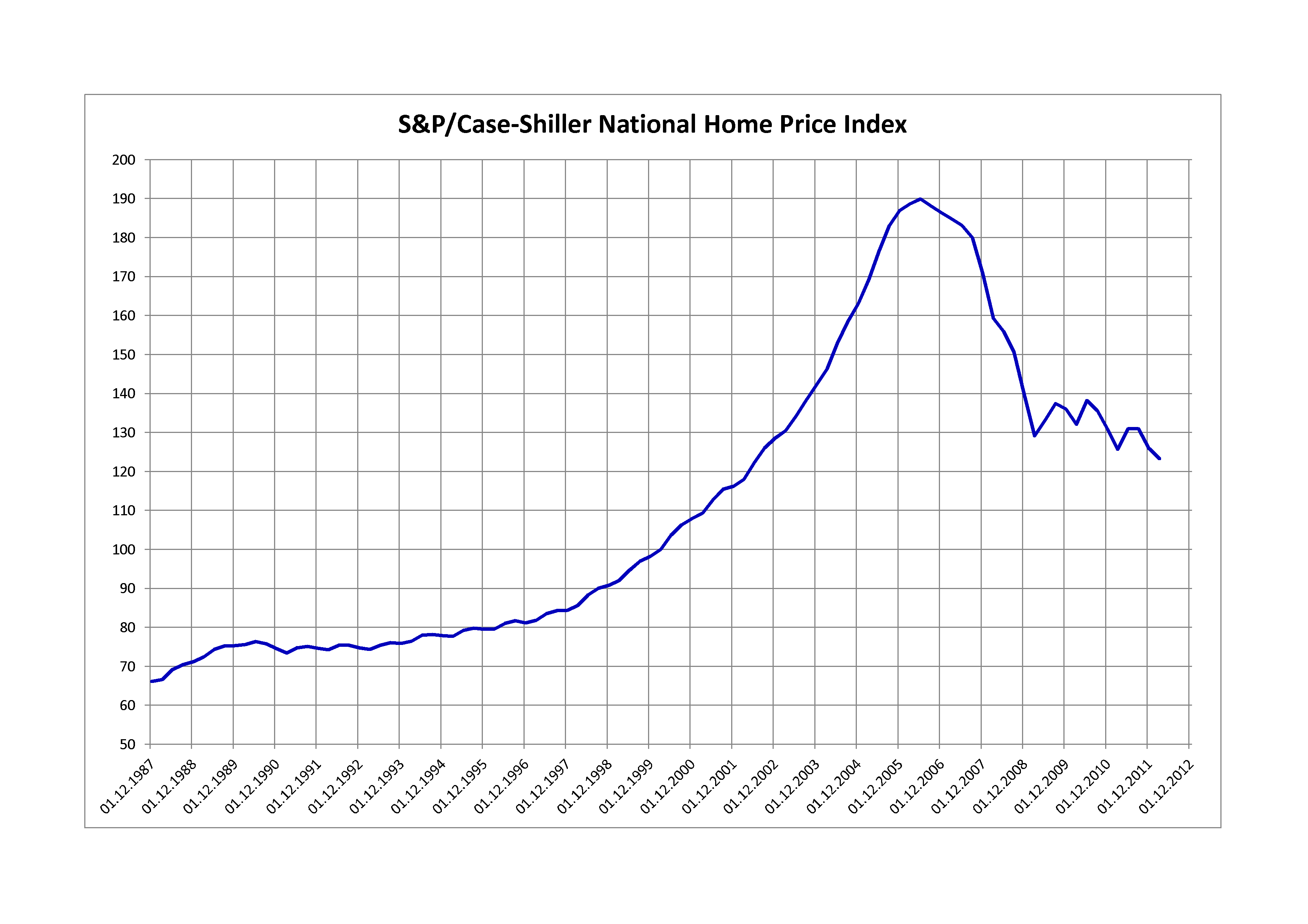 S&P/Case-Shiller National Home Price Index from December 1987 to March 2012 (quarterly data)